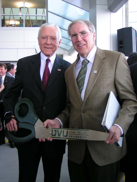 U.S. Senator Orrin Hatch and Utah Valley University President William A. Sederburg (formerly a Michigan state senator) holding a giant pair of scissors for the ribbon-cutting of the university's new library Original Title: "Utah Valley University Library Ribbon-Cutting" Original caption: "U.S. Senator Orrin Hatch and Utah Valley University President William Sederburg joined with other dignitaries and state and national officials at the ribbon-cutting for the fledgling university's new library"